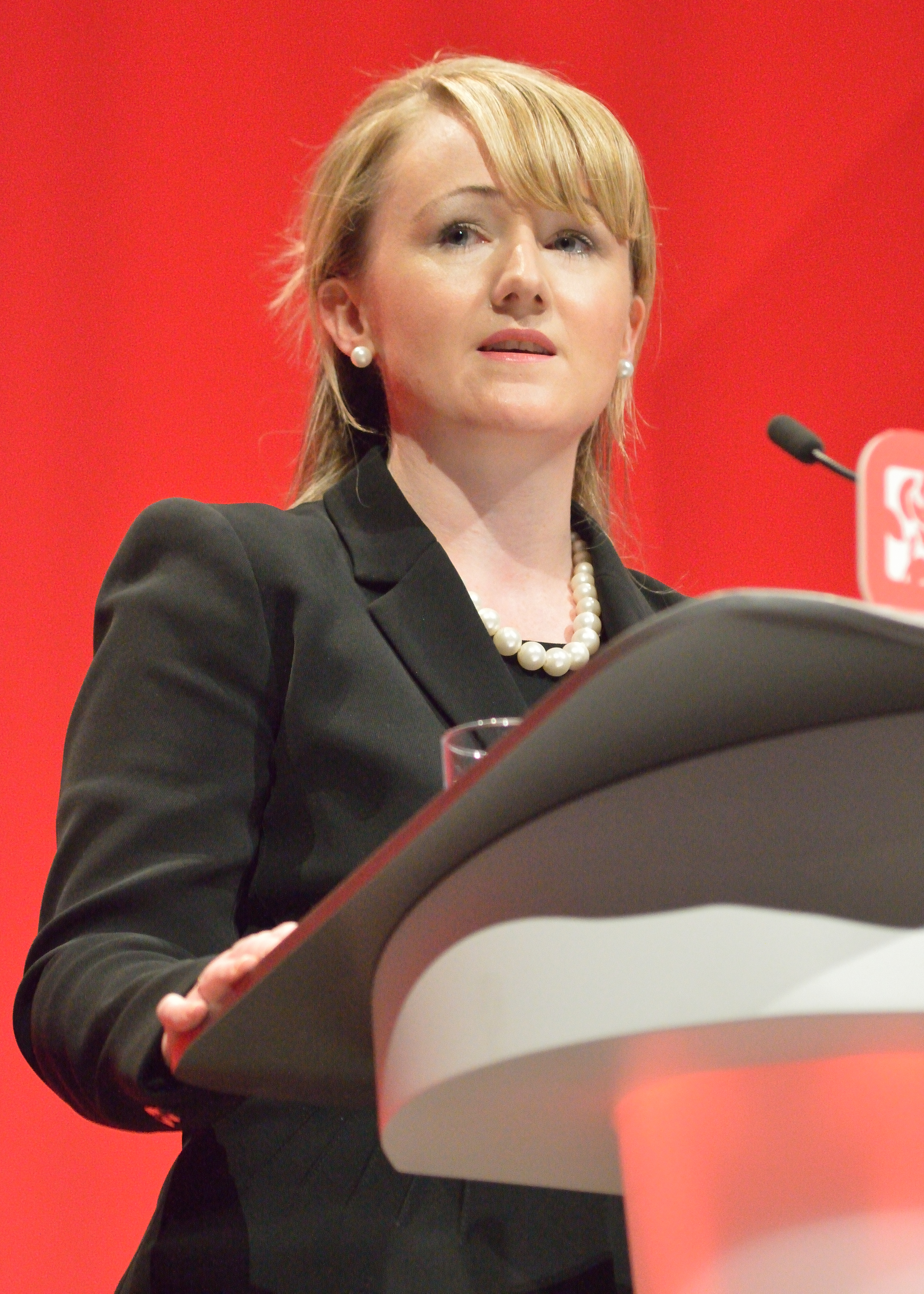 Rebecca Long-Bailey giving her Shadow Chief Secretary to the Treasury speech at the 2016 Labour Party Conference in Liverpool.